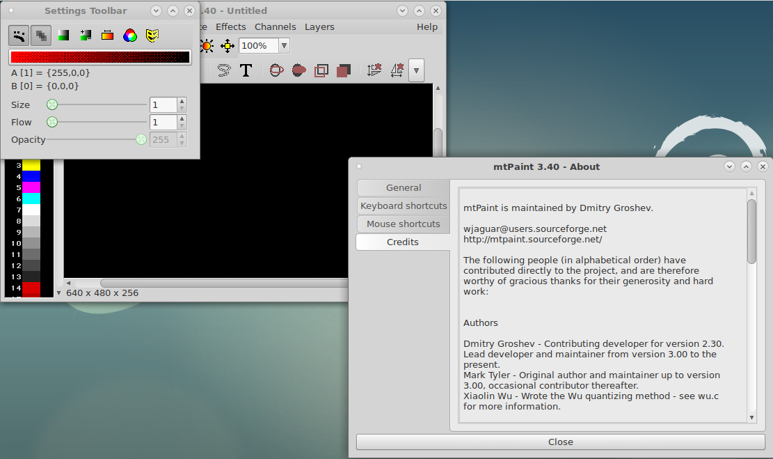 mtPaint 3.40 running on GNU/Linux (Debian 9). About box and first start view when installed.